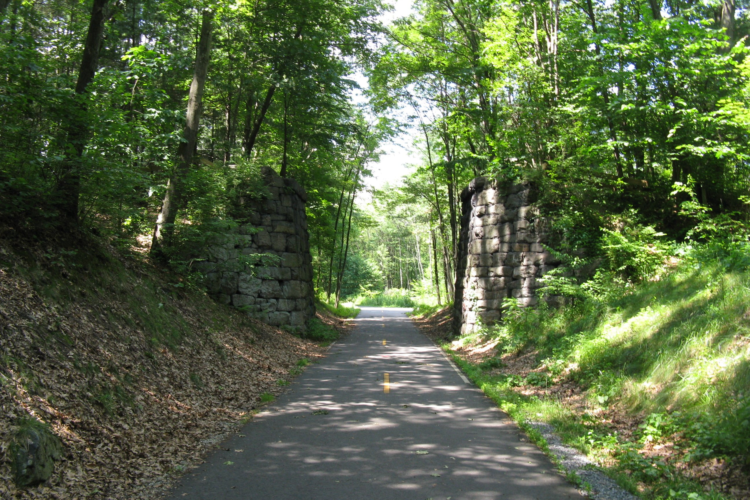 Assabet River Rail Trail south of Washington Street, Hudson Massachusetts These abutments formerly carried "Farmer's Bridge", which was removed during construction of the trail. A metal brakeman's warning pole, used hold chains which warned brakemen of the upcoming bridge, still stands slightly to the south of these abutments.